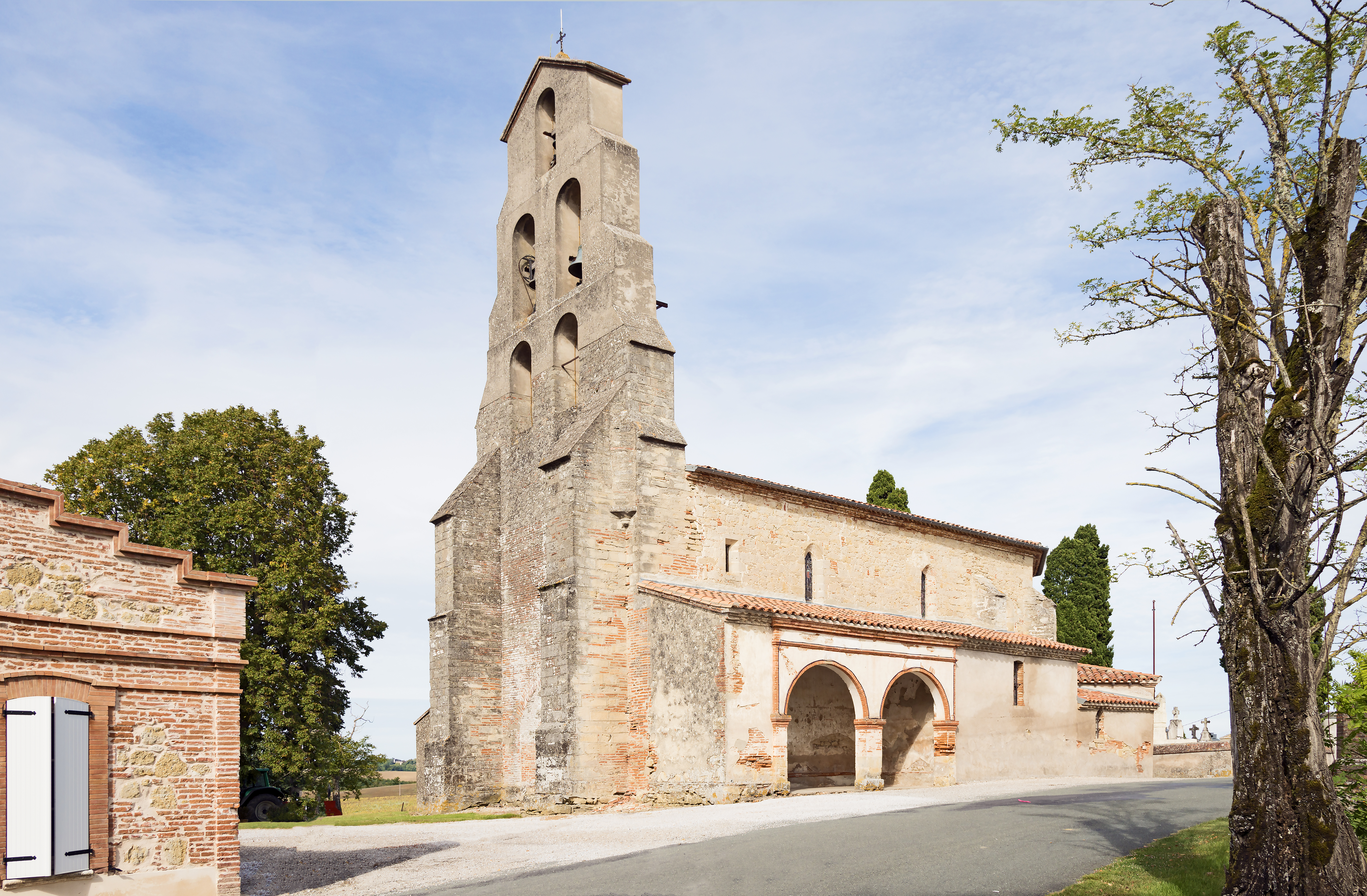 Montcabrier, Tarn, France. Church with bell gables.